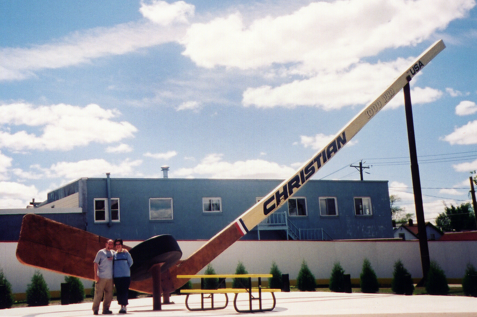 107 feet long (weighs over 3 tons, and has an accompanying 700-pound hockey puck) Manufactured by Sentinel Structures, Inc., of Peshtigo, Wisconsin Eveleth, Minnesota Claims to be the "World's Largest Free Standing Hockey Stick" challenging Duncan, British Columbia for the title.